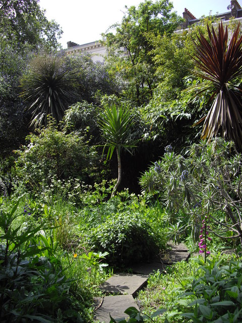 Garden Path Eccleston Square The square takes its name from the Cheshire village of Eccleston, It was marshland but drained in the early 17th century.